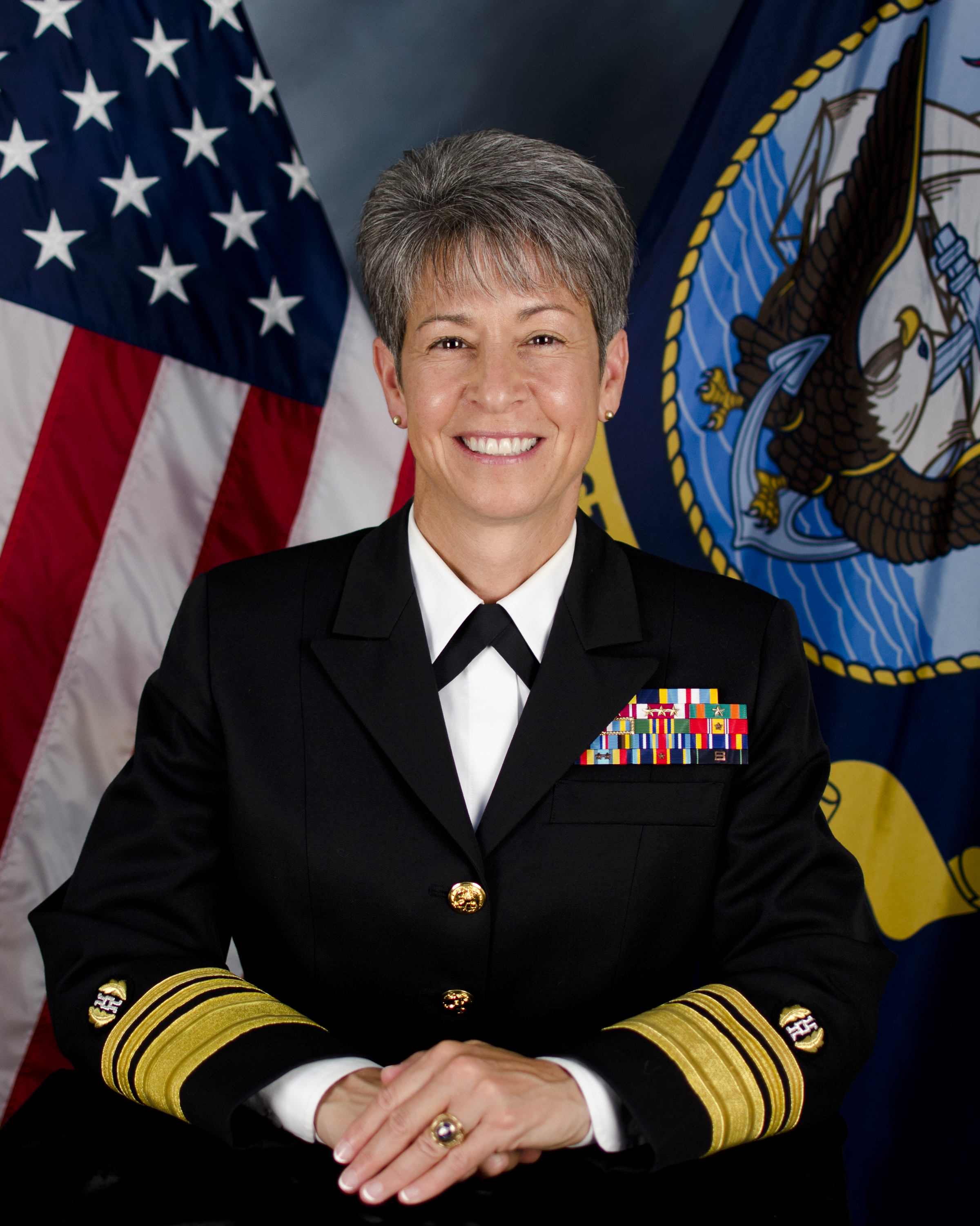 Vice Admiral Nanette M. "Nan" DeRenzi, USN42nd Judge Advocate General of the Navy